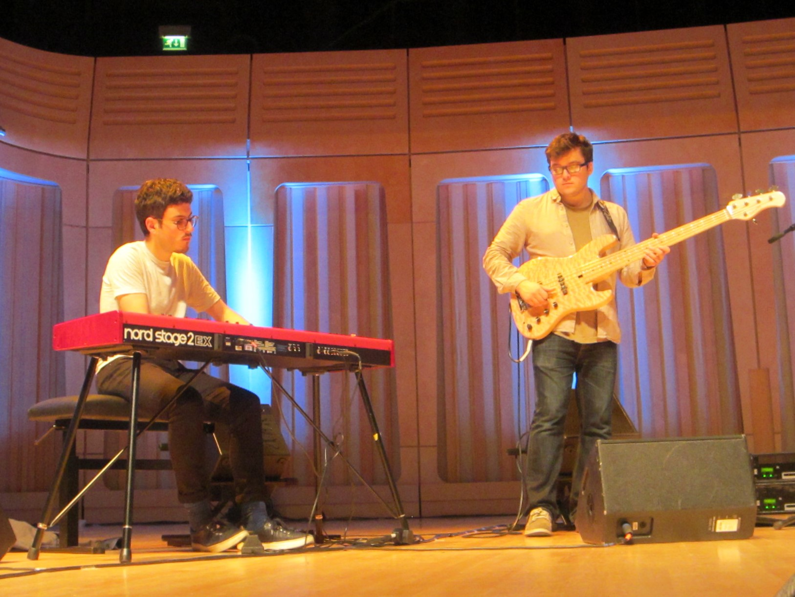 British jazz quartet Dinosaur live on stage at The Dora Stoutzker Hall, Royal Welsh College of Music & Drama in Cardiff in October 2016. Elliot Galvin and Conor Chaplin shown.